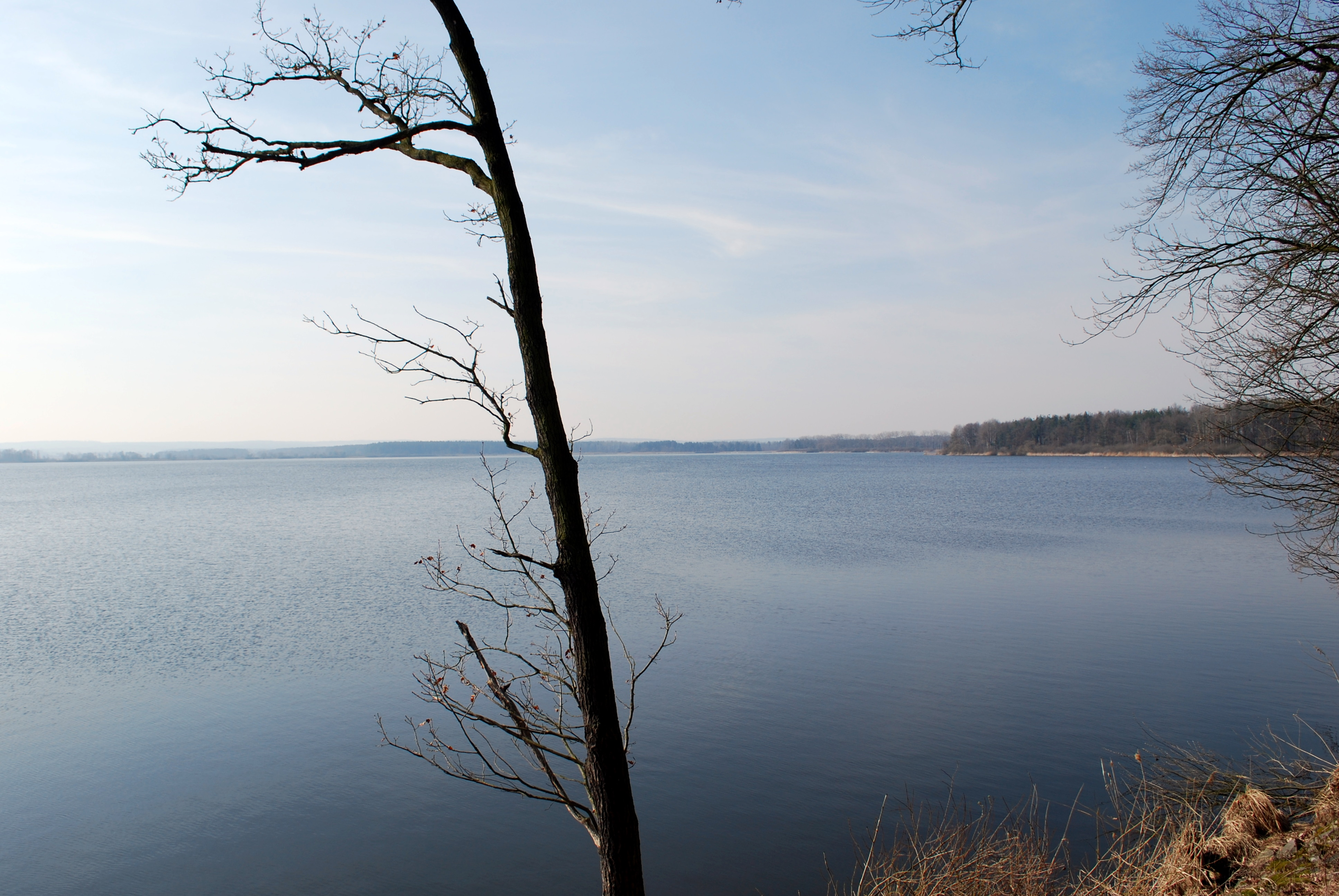 Záblatský pond, Jindřichův Hradec District, Czech Republic. View from dam. This photograph was taken within the scope of the 'Czech Municipalities Photographs' grant.